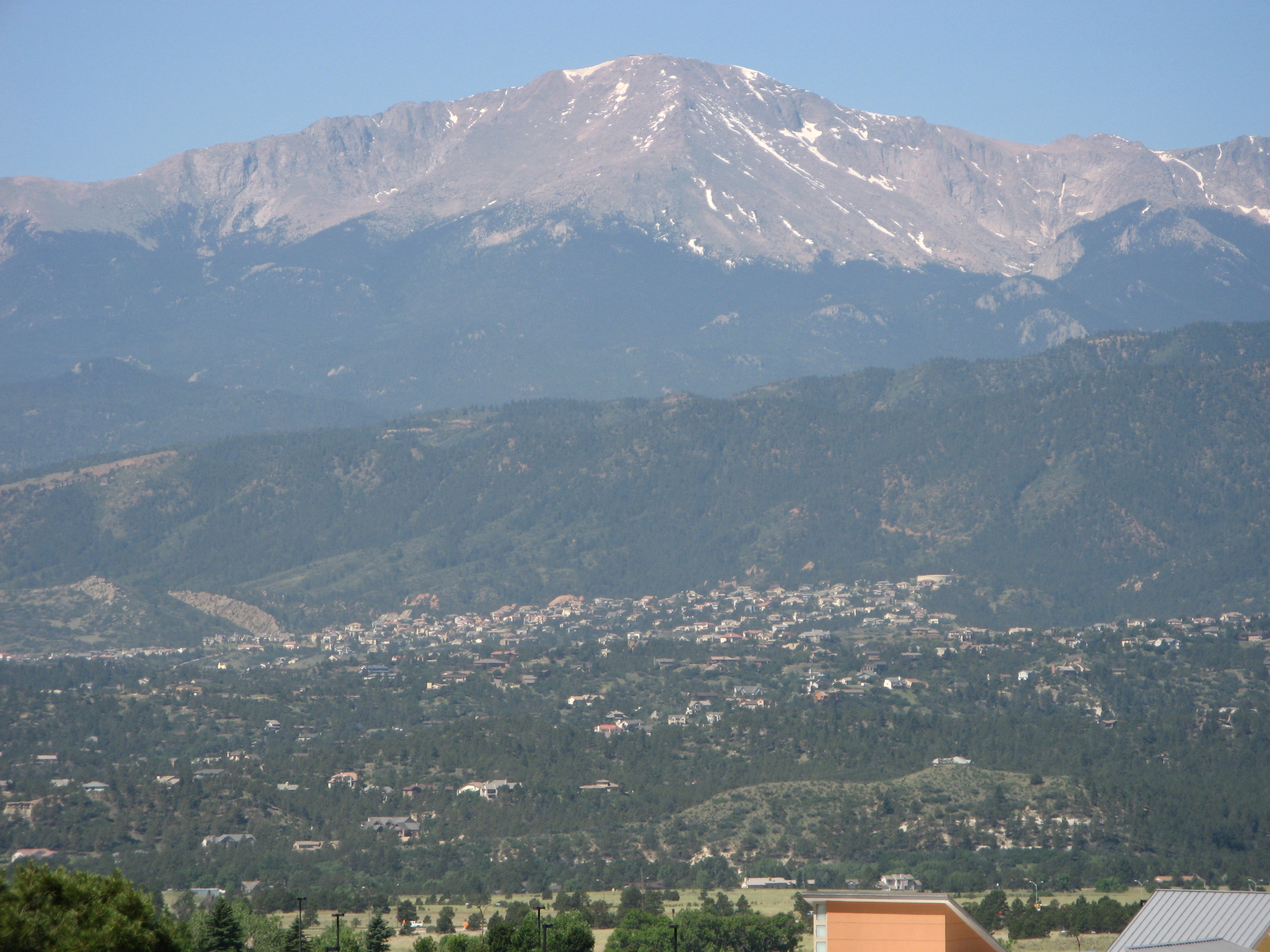 Pikes Peak, viewed from Colorado Springs, CO